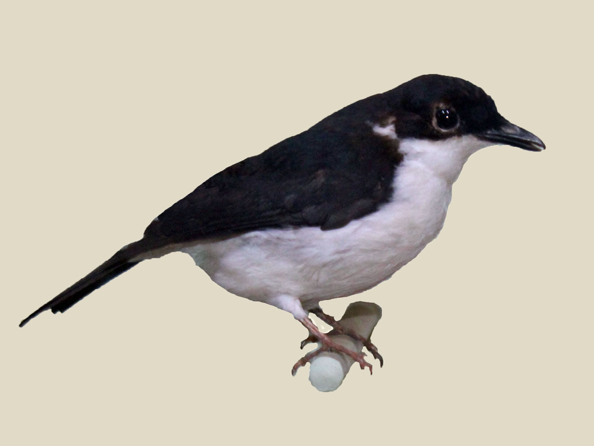 Male African Shrike-flycatcher (Megabyas flammulatus). Photograph of a specimen at Nairobi National Museum in Nairobi, Kenya. Eye color is not realistic.